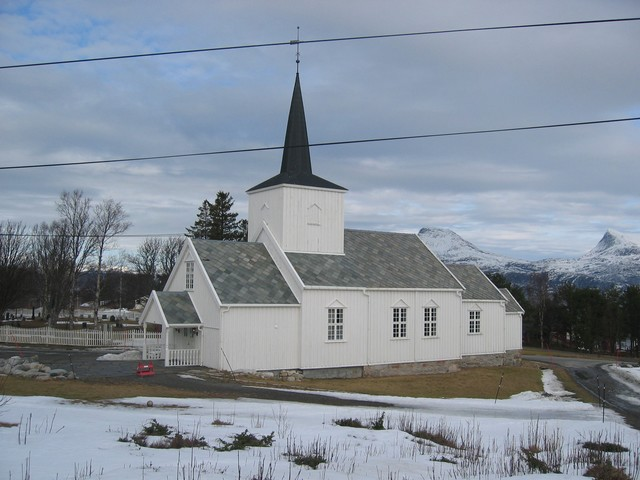 Church of Korsnes in Tysfjord